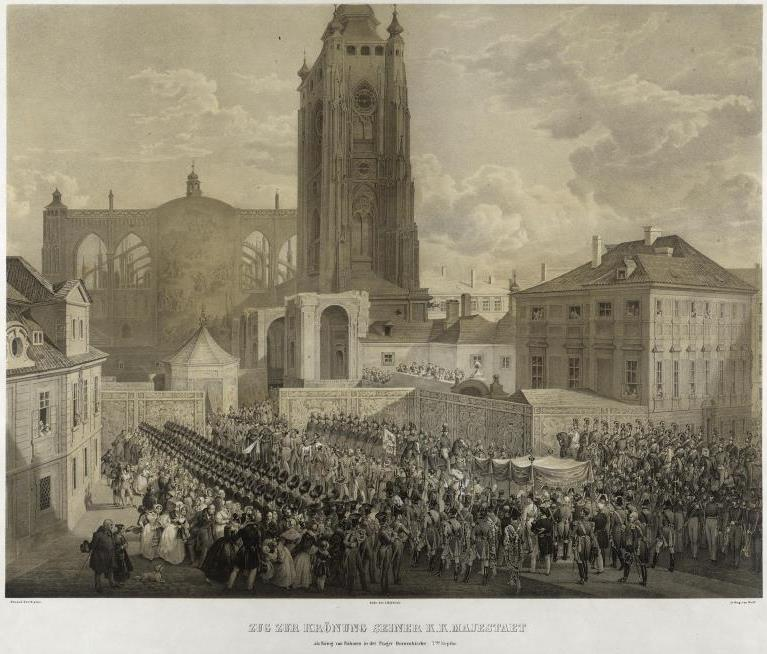 After painting